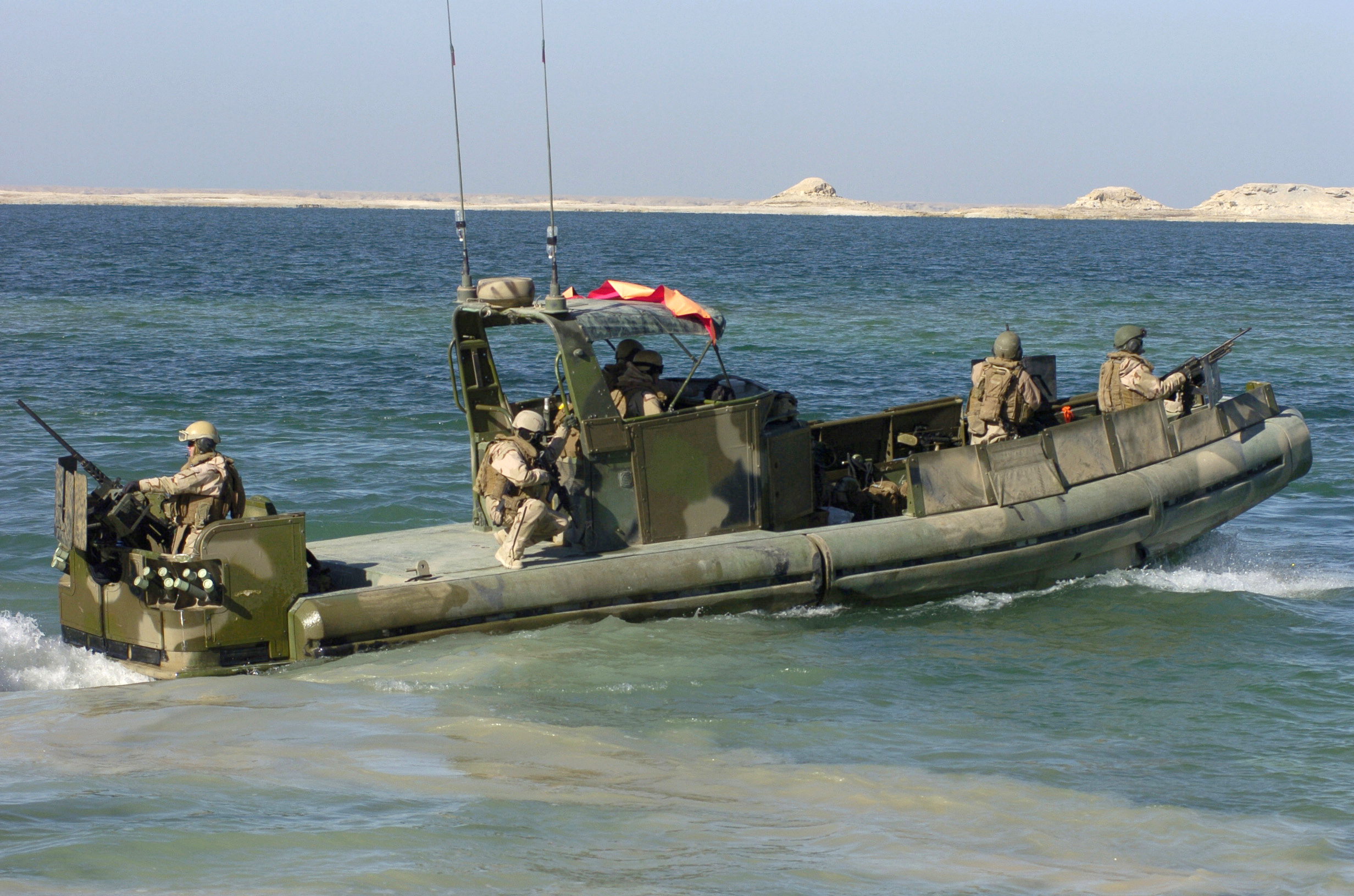 Riverines attached to Riverine Squadron 2 at Haditha Dam Forward Operating Base conduct a patrol in Haditha, Iraq, December 20, 2007. Members of RIVRON 2 patrol Haditha’s dam and surrounding waterways, denying their use by insurgents, which in turn provides security to local fisherman. Location: Haditha Dam FOB, Anbar Province Iraq 5